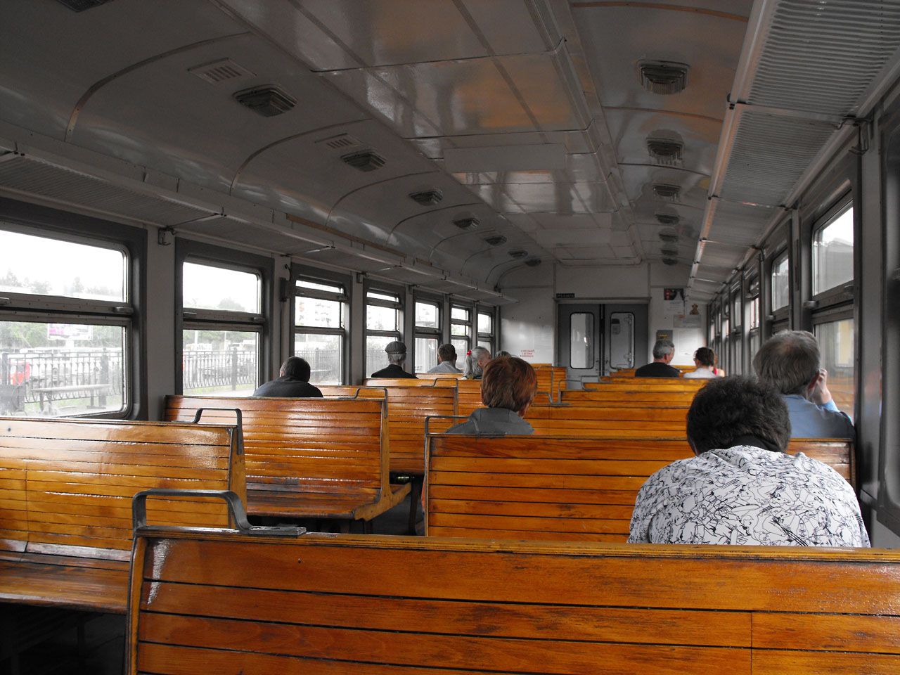 Elektrichka at Сосновая Поляна Station in St.Petersburg,Russia.